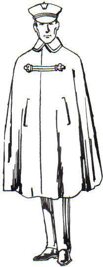 line art drawing of cape.